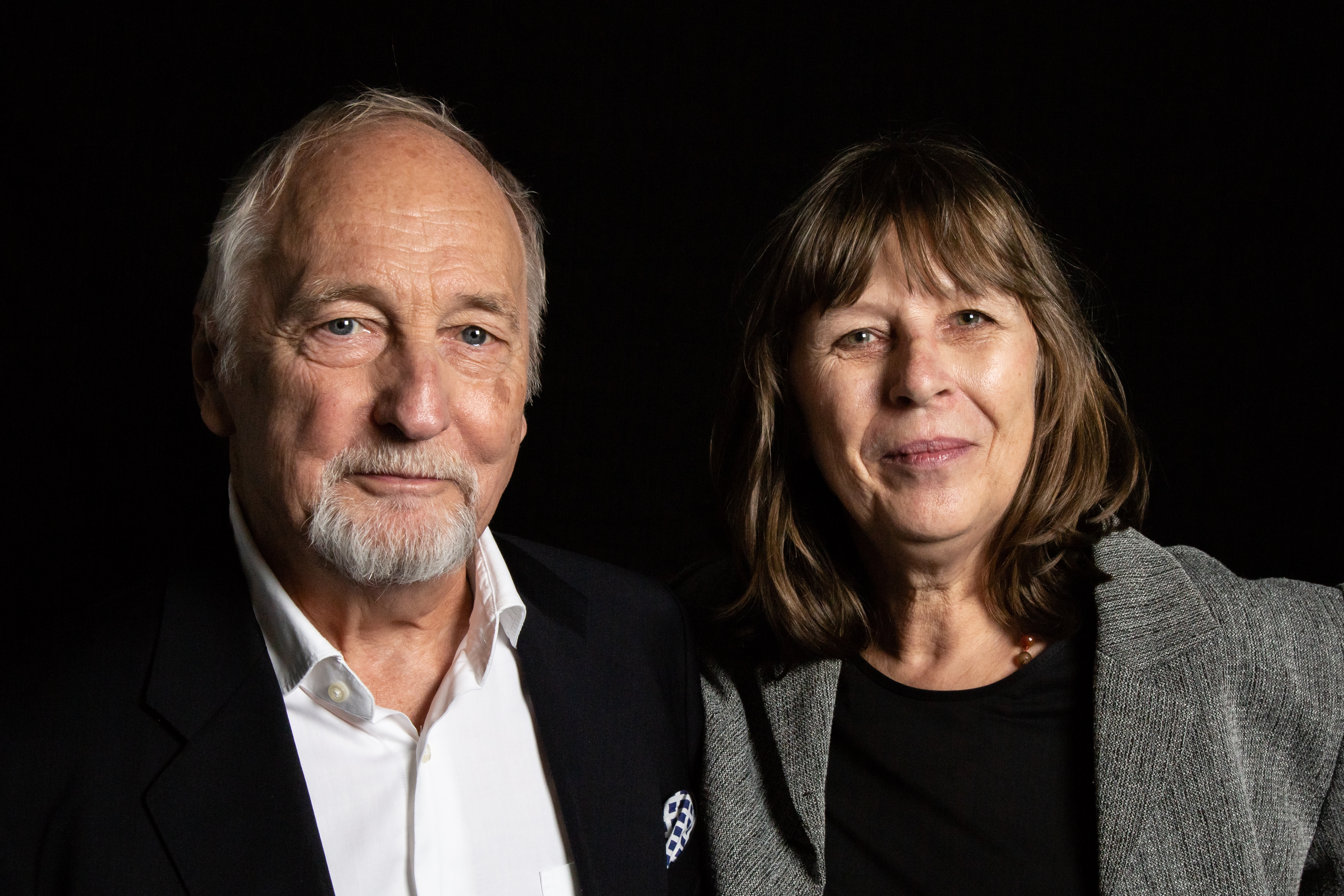 German publishers Barbara Kalender and Jörg Schröder at the Frankfurt Book Fair 2018